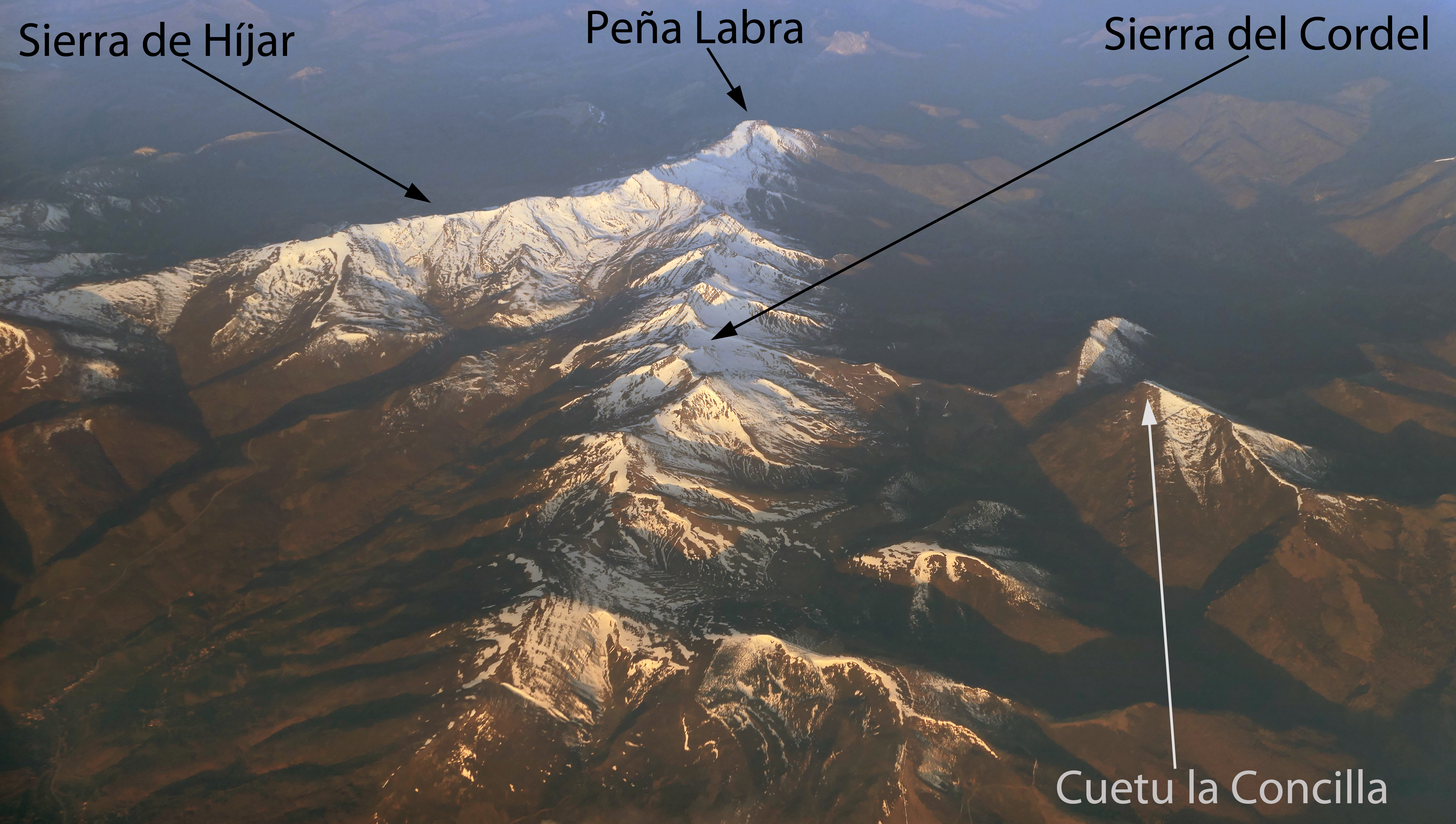 An aerial view of the Sierra del Cordel in northern Spain. Also included are the Sierra de Híjar, Cuetu la Concilla and Peña Labra.